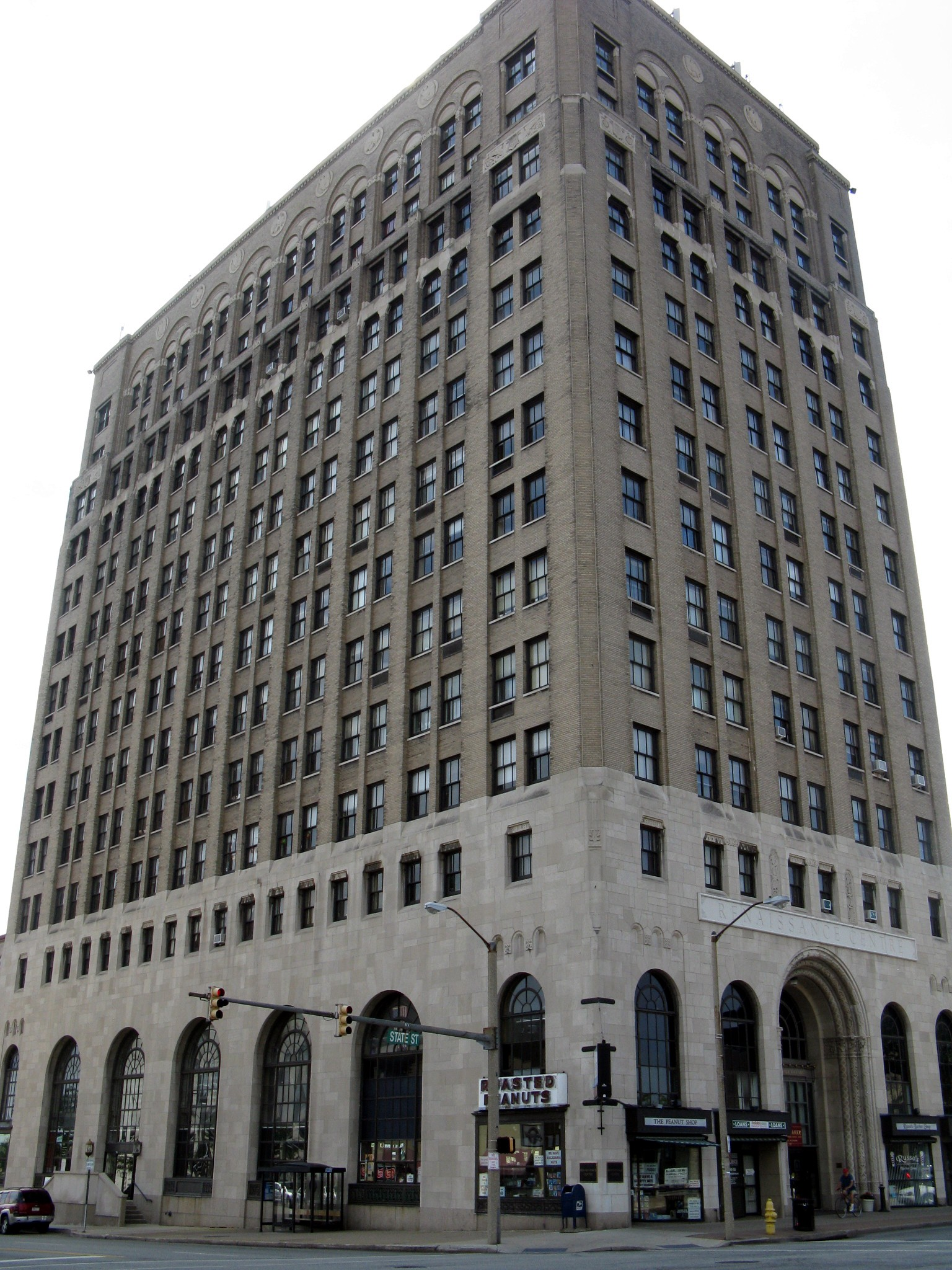 The Renaissance Centre Building (Also known ans the Trust Building) in Erie, Pennsylvania. It is listed on the National Register of Historic Places as the Erie Trust Company Building.